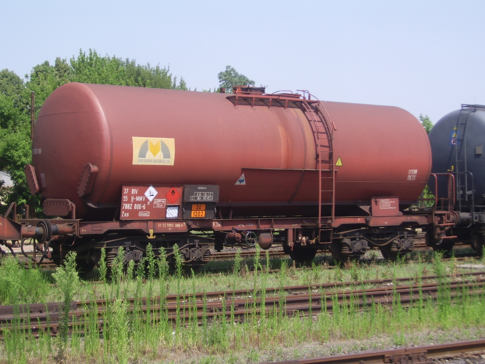 Type Zas rail cargo wagon in Szeged-Rókus. Key for Zas letter group: Z = tanker a = with four axes s = In circulation according to the European Technical Specification for Interoperability, appendix B, standard s